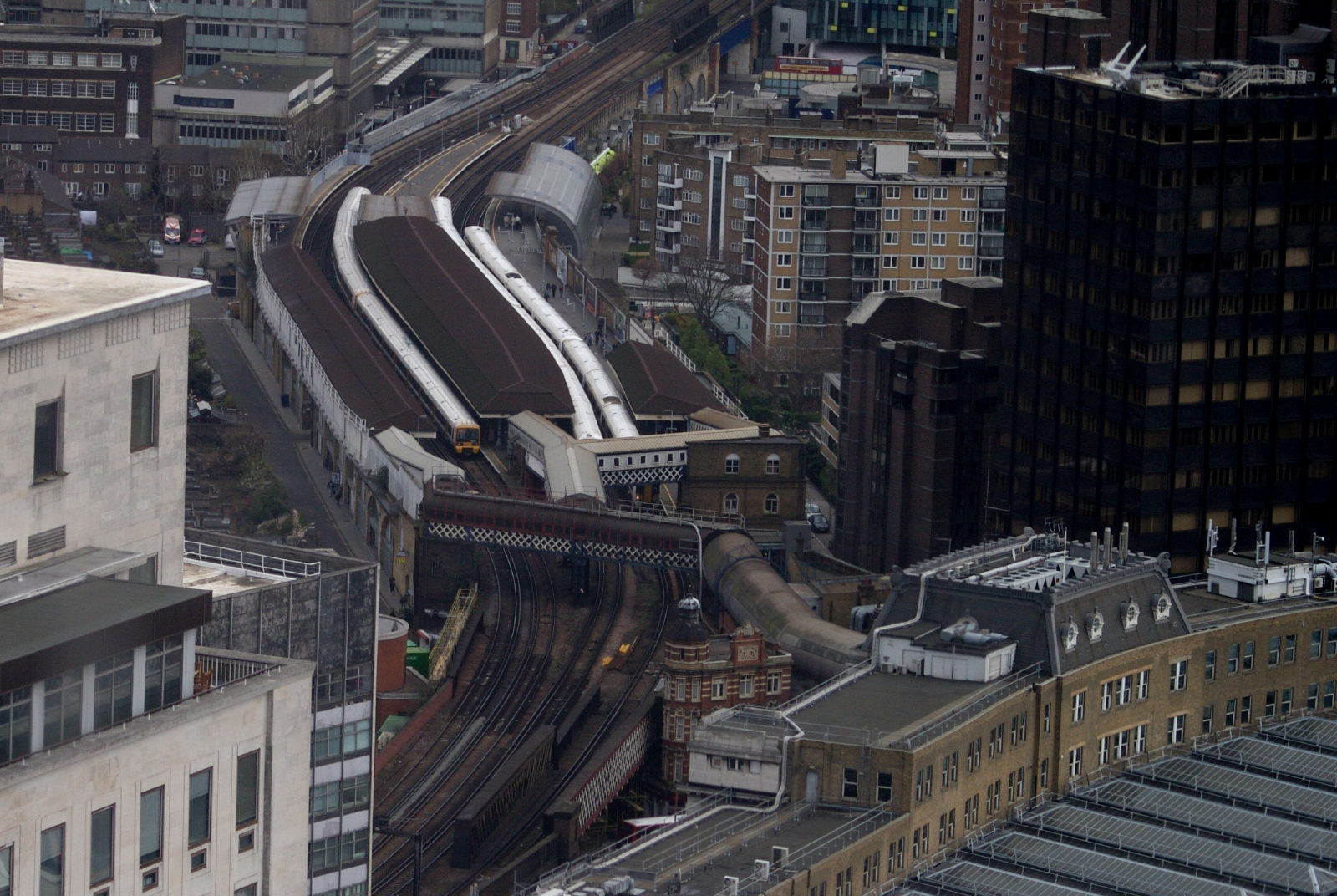 Waterloo East station, looking SE. The curved building in the right lower corner is Waterloo Station.